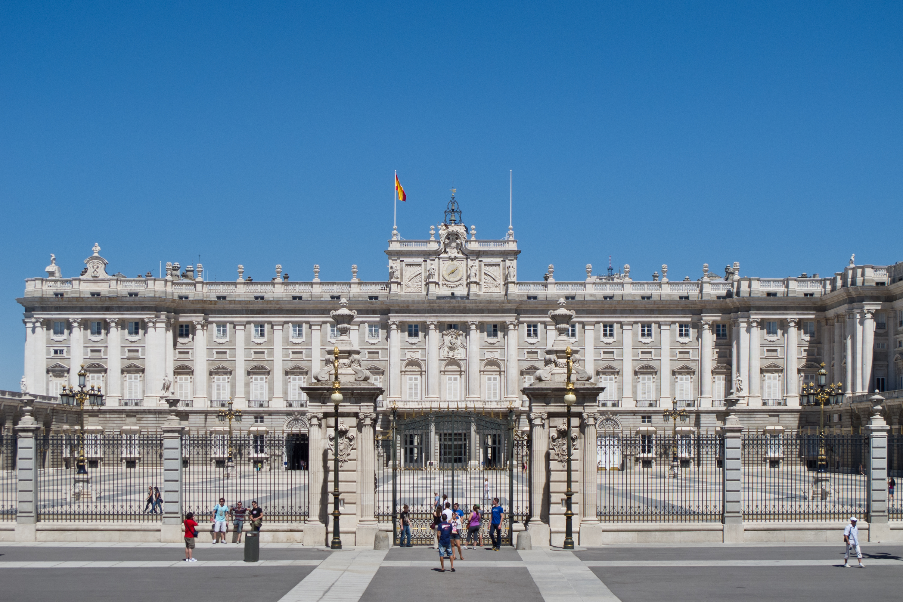 Royal Palace of Madrid, Spain.